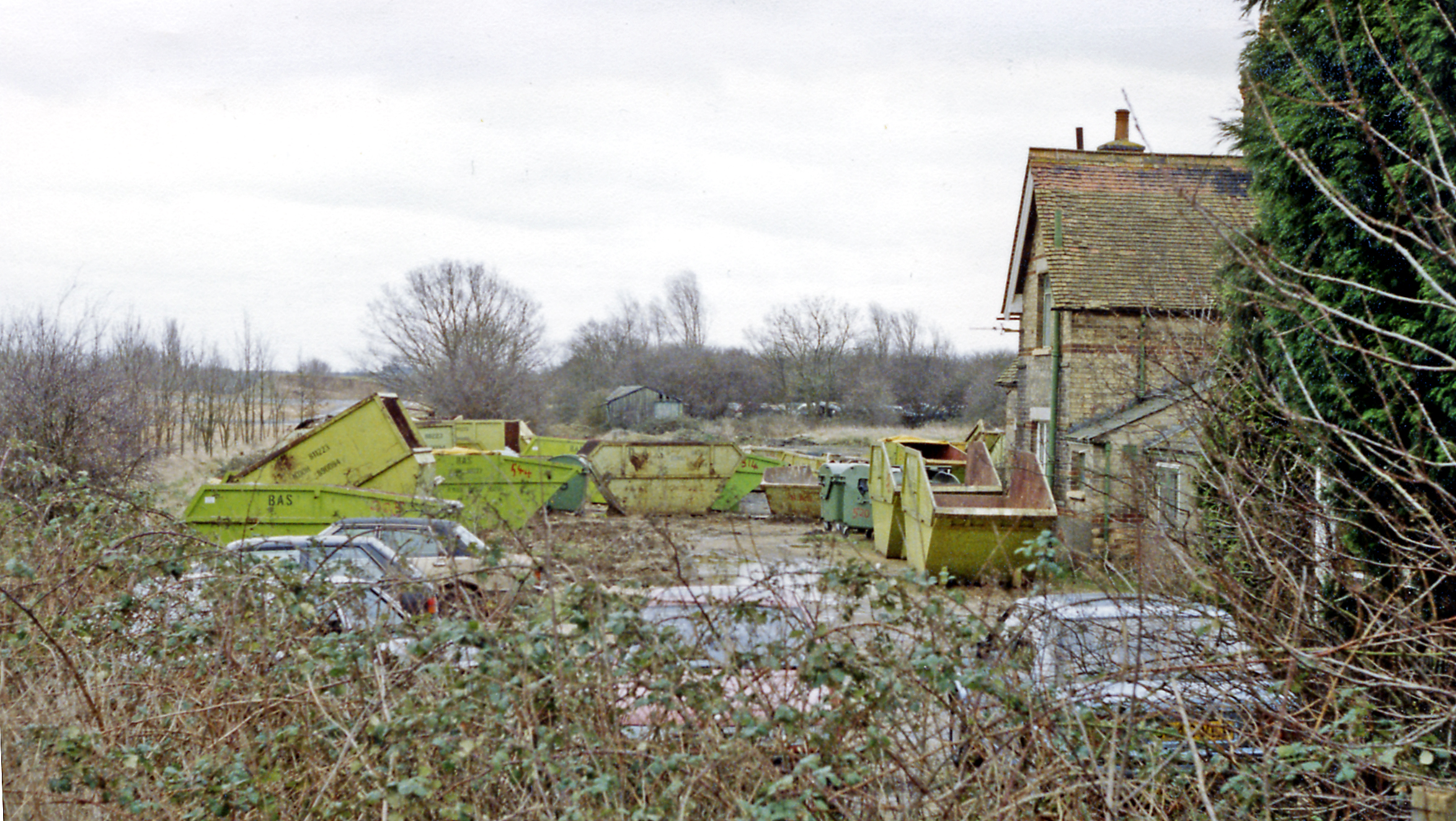 Former Buckden station, 1990. View eastward, towards Huntingdon: ex-Midland Kettering - Huntingdon East - (St Ives - Cambridge) line. (Cf. Exactly the same view, when the line was still open, about 30 years before, TL2069 : Buckden Station).